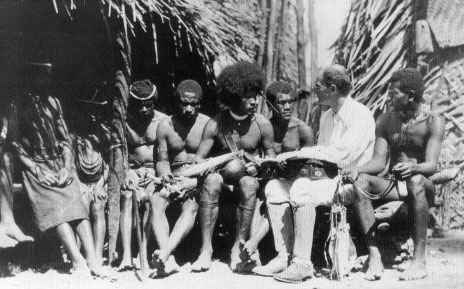 Picture of Bronisław Malinowski with natives on Trobriand Islands, 1918.